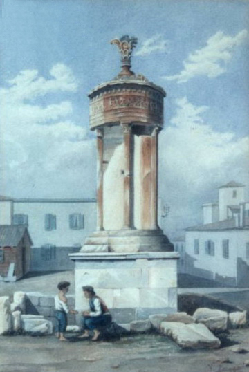 Monument of Lysicrates